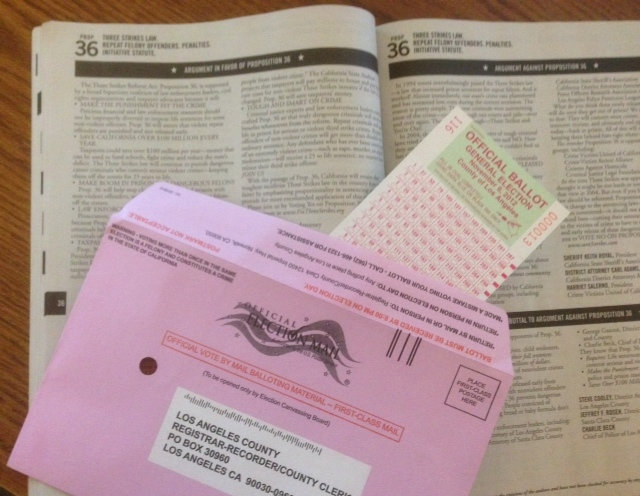 US General Election ballot and Voter's guide 2012